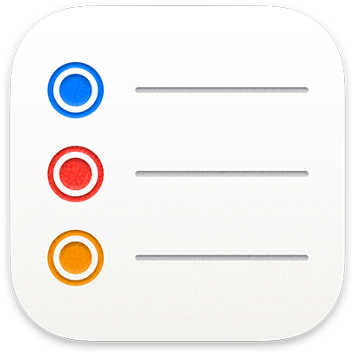 Reminders icon macOS